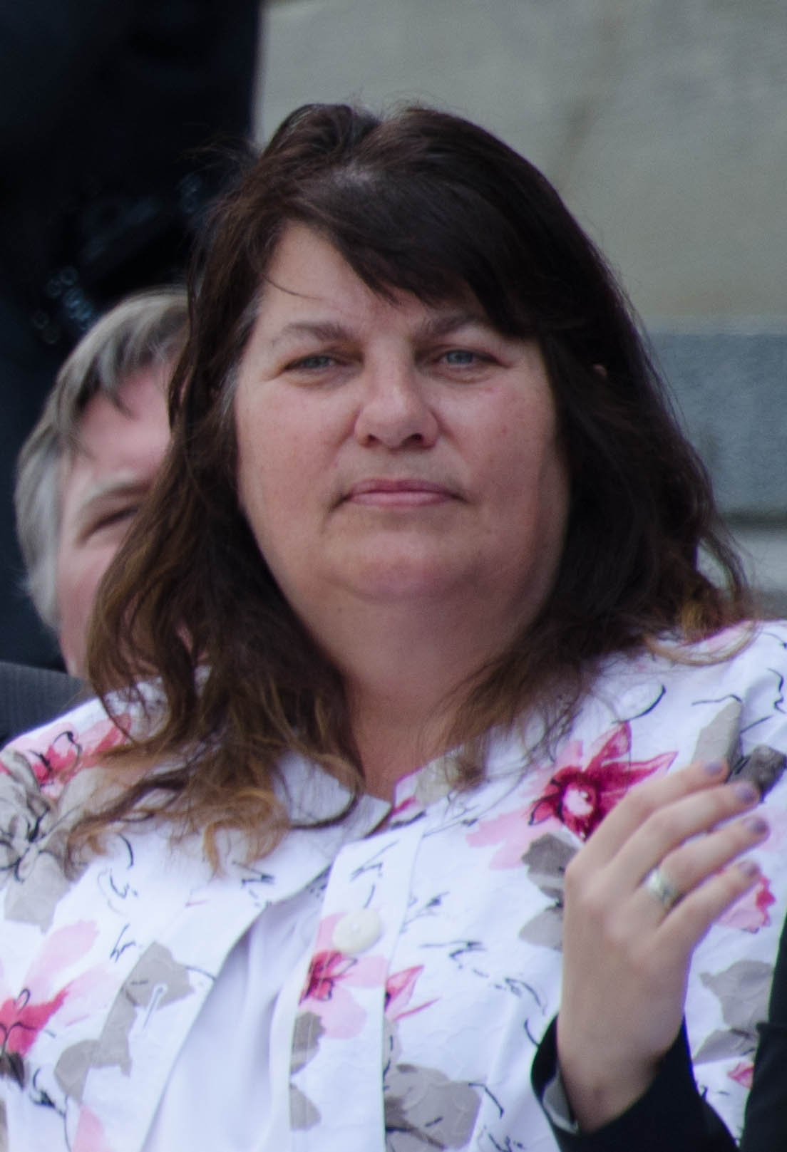 Kim Schreiner at the 2015 Alberta Premier/Cabinet swearing-in ceremony, by Connor Mah.